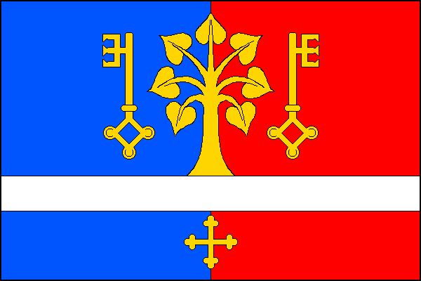 Municipal flag of Sedlice village, Pelhřimov District, Czech Republic.